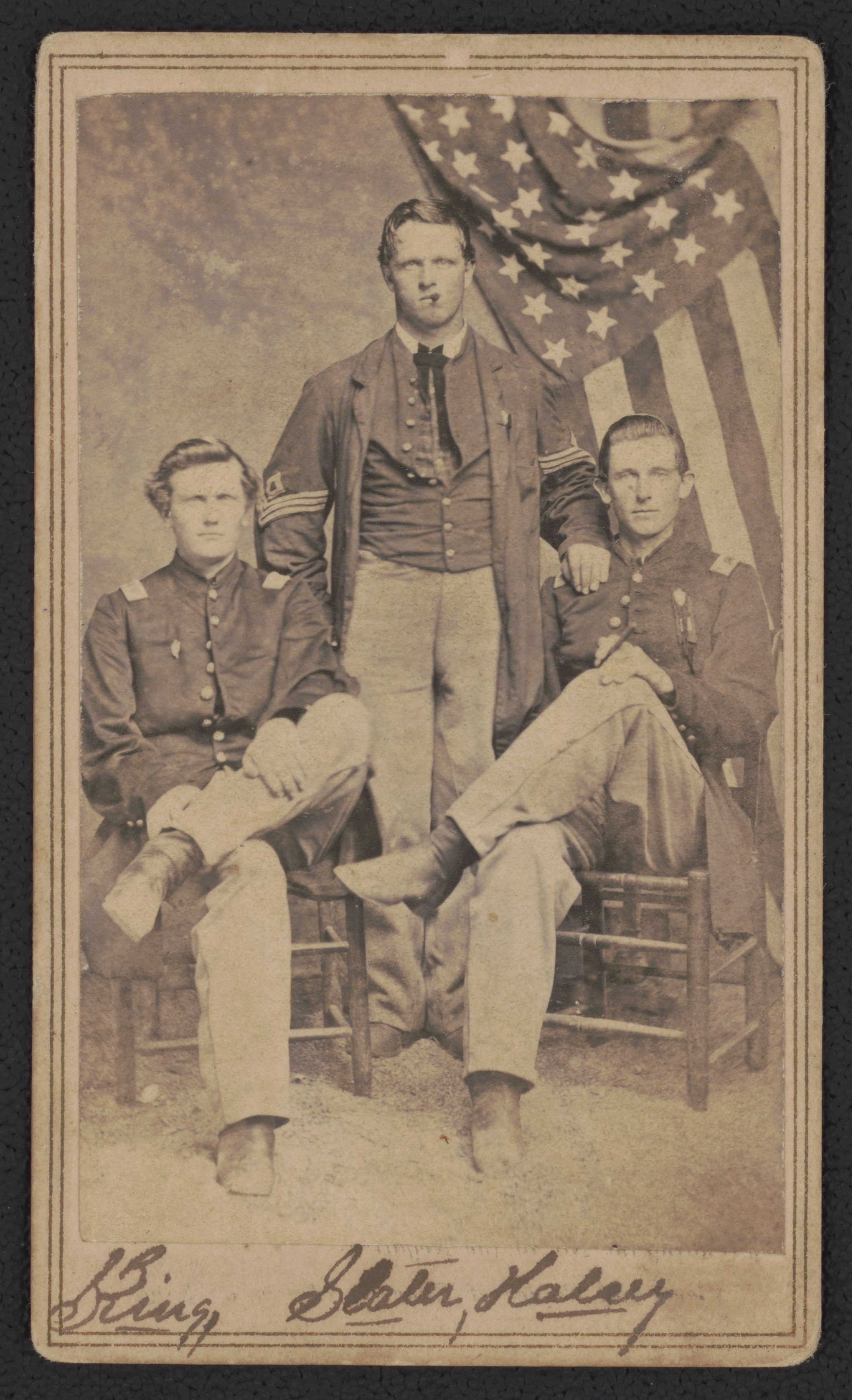 Title: First Lieutenant Robert S. King, Second Lieutenant James W. Slater, and Captain Milton W. Halsey of 18th Ohio Infantry Regiment, in uniforms with American flag and cigars] / I.H. Bonsall, Photographer in 14th Army Corps, formerly 14 West 5th St, Cincinnati, Ohio Abstract/medium: 1 photograph : albumen print on card mount ; mount 11 x 7 cm (carte de visite format)